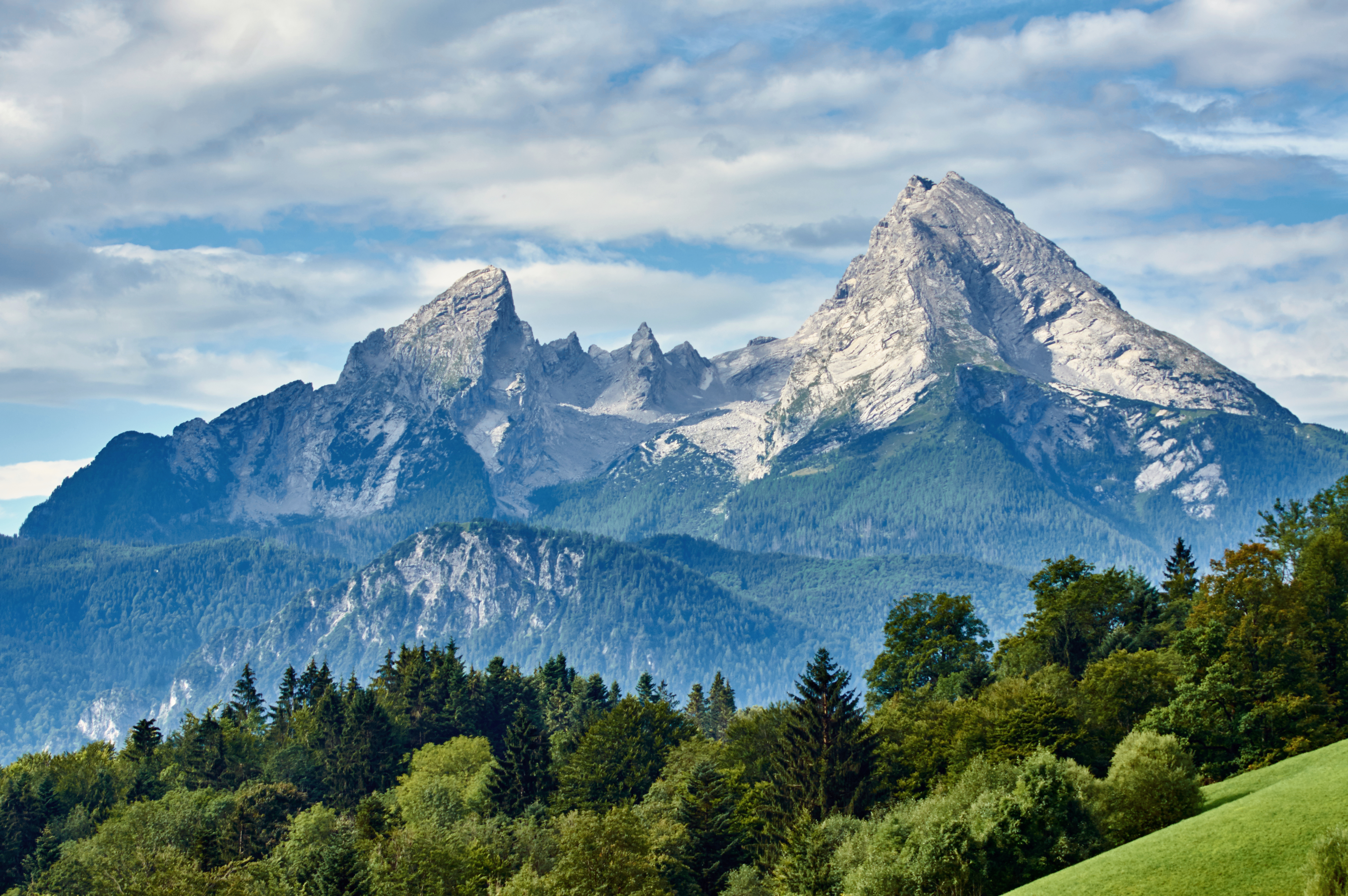 The 2713 m high Watzmann massif, Berchtesgaden Alps (eastern Bavarian Alps), Germany.